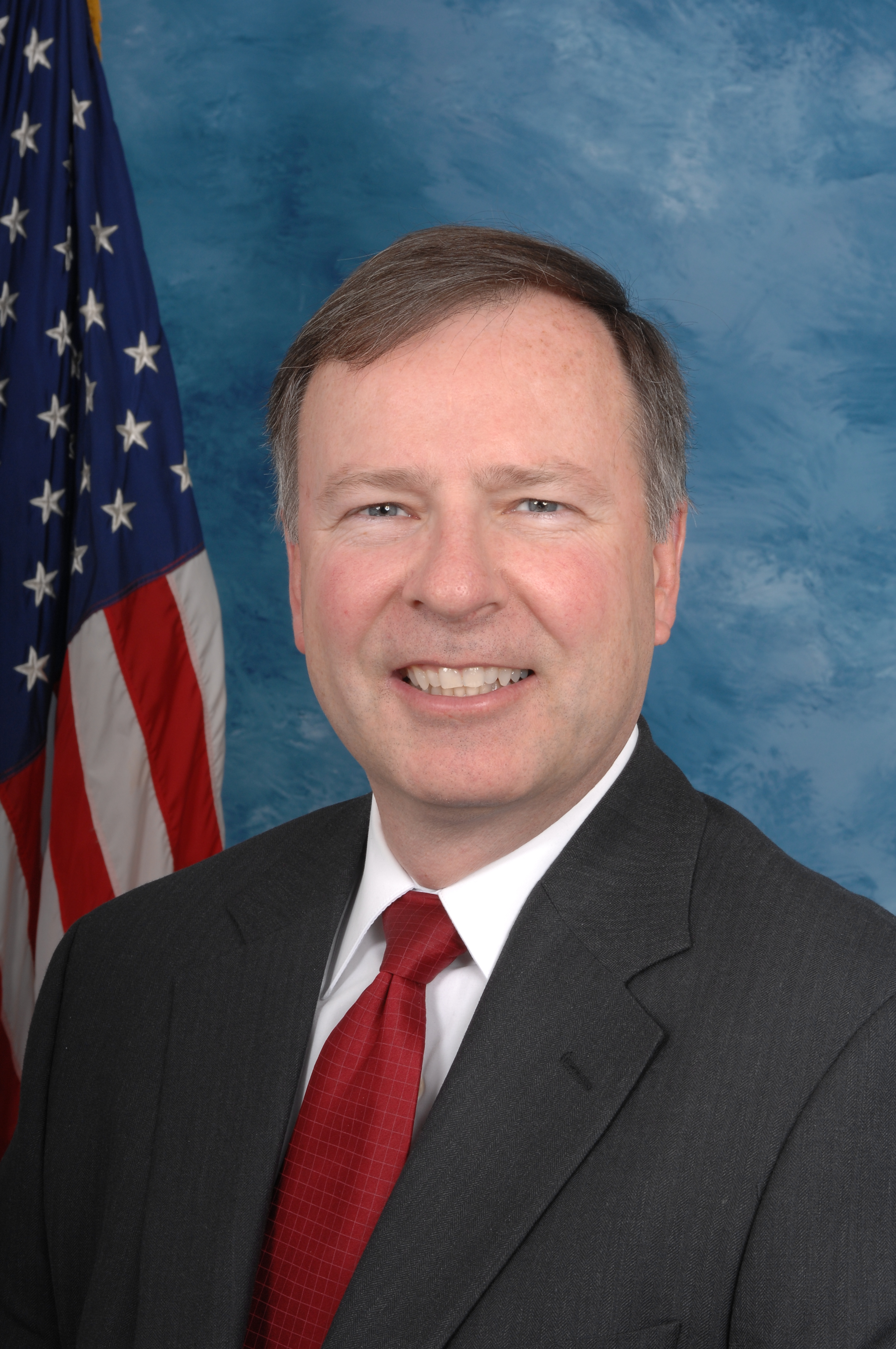 Doug Lamborn, member of the United States House of Representatives.